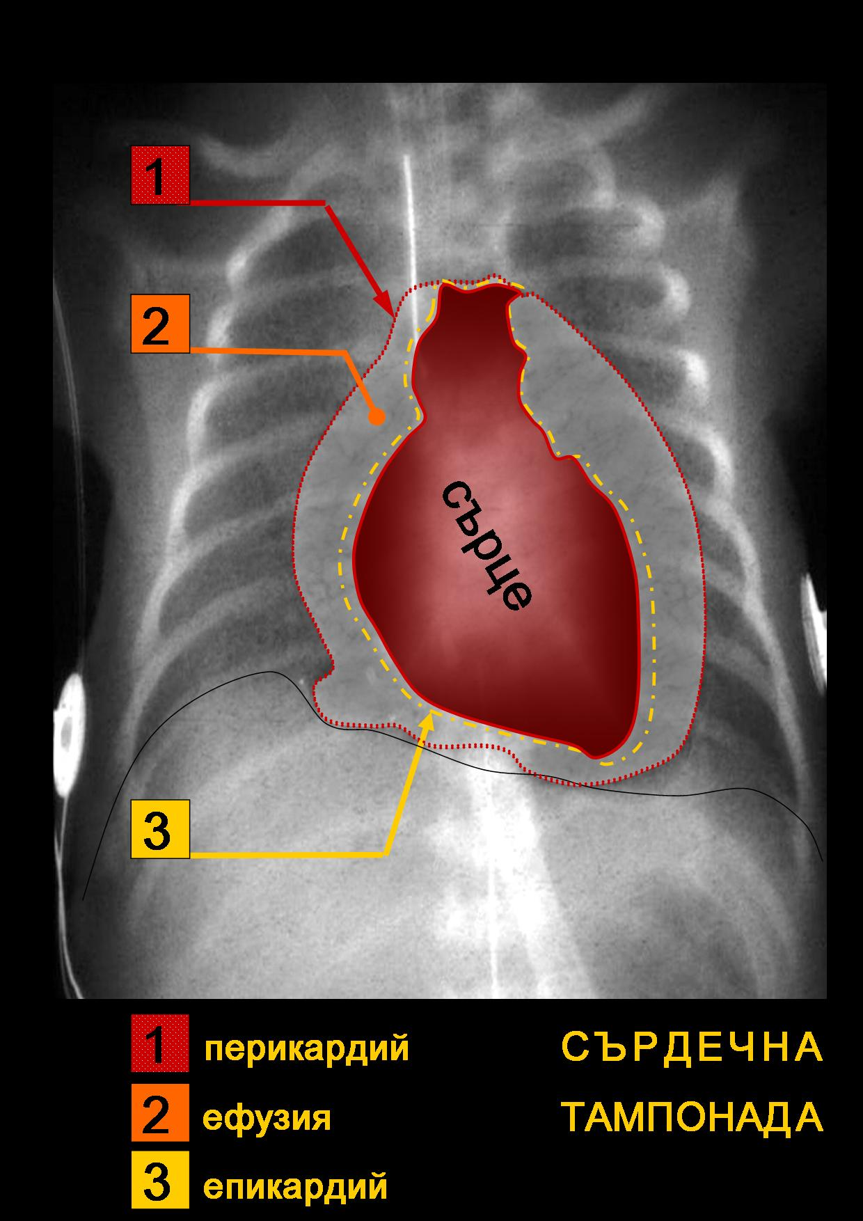 Illustration of cardiac tamponade. X-ray used as background is of a neonate with a congenital cardiomyopathy and cardiac tamponade.